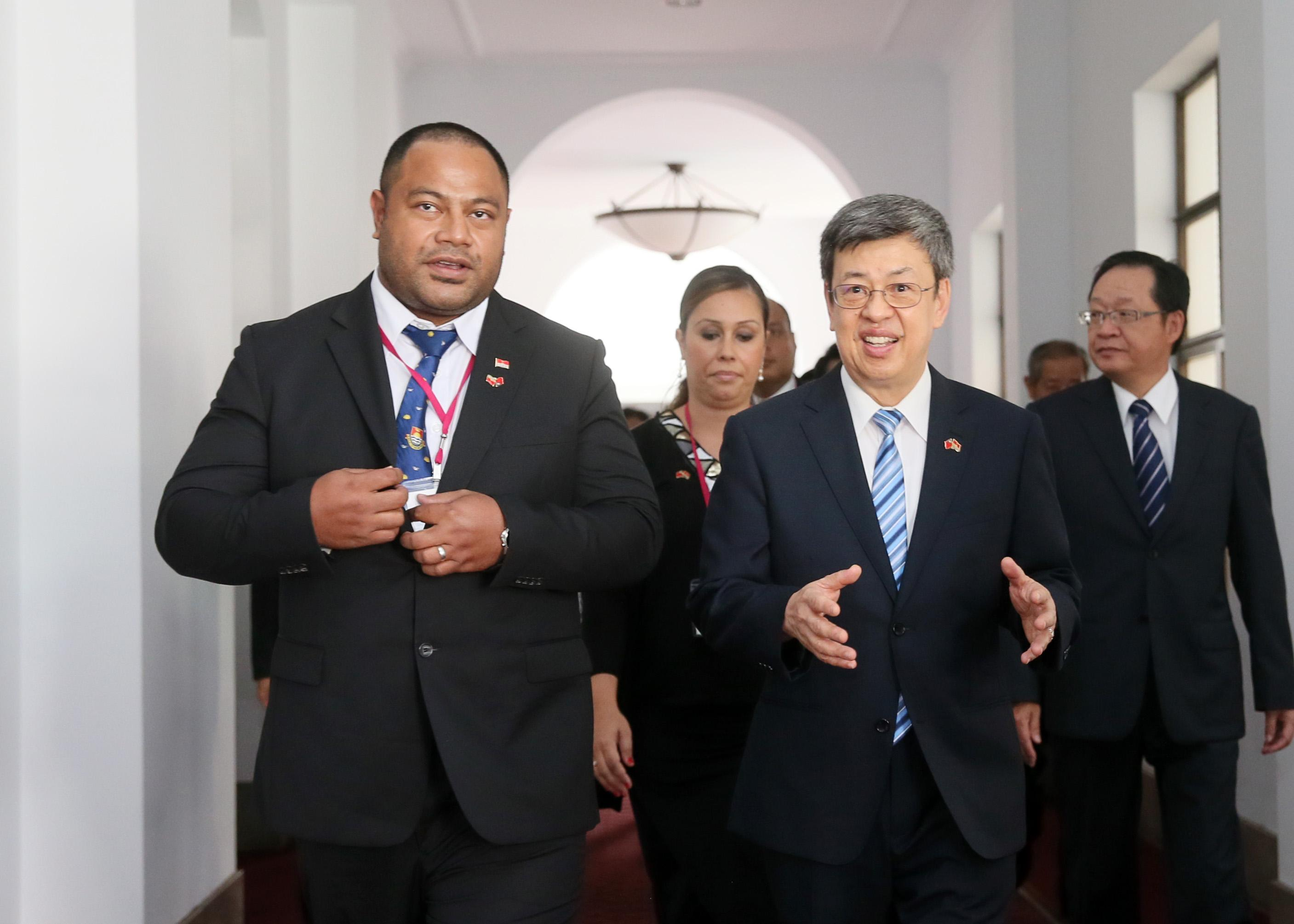 Vice President Chen welcomes a delegation led by Vice President and Minister for Public Works and Utilities of Kiribati Kourabi Nenem and Mrs. Nenem. 授權方式及範圍：中華民國總統府│政府網站資料開放宣告 Authorization Method & Scope: Office of the President, Republic of China (Taiwan) | Government Website Open Information Announcement